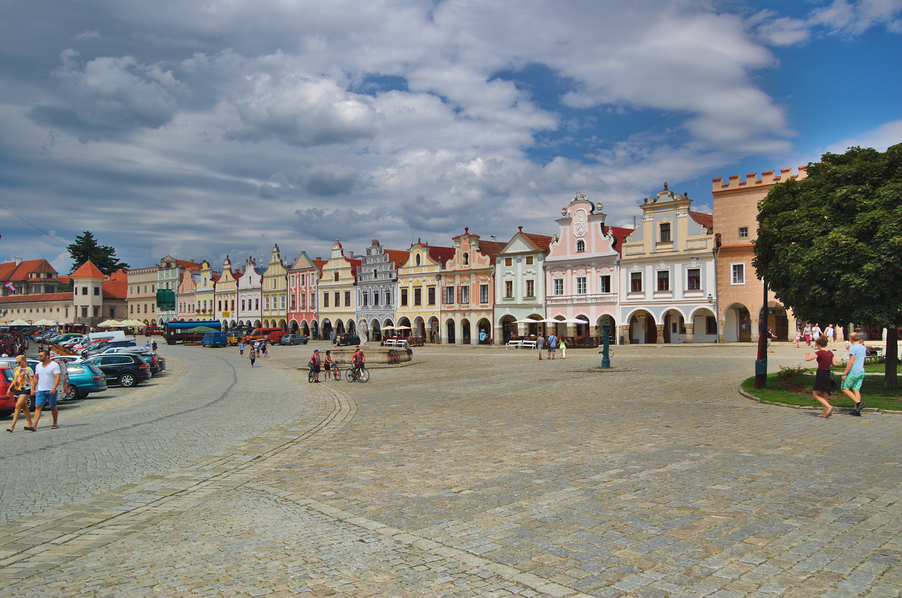 Zacharias of Hradec Square, Telč